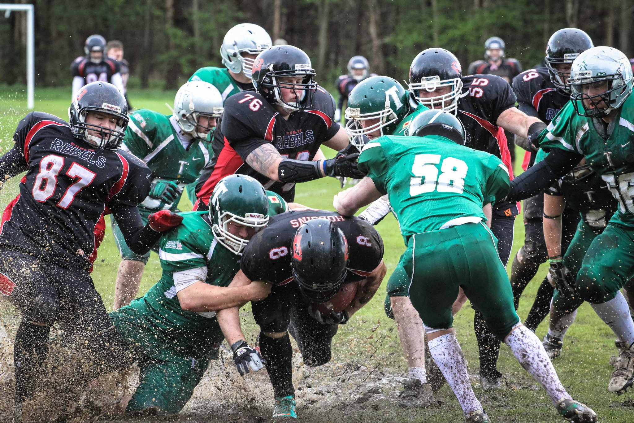 Belfast Trojans defeat the Dublin Rebels at Shorts Sports Ground